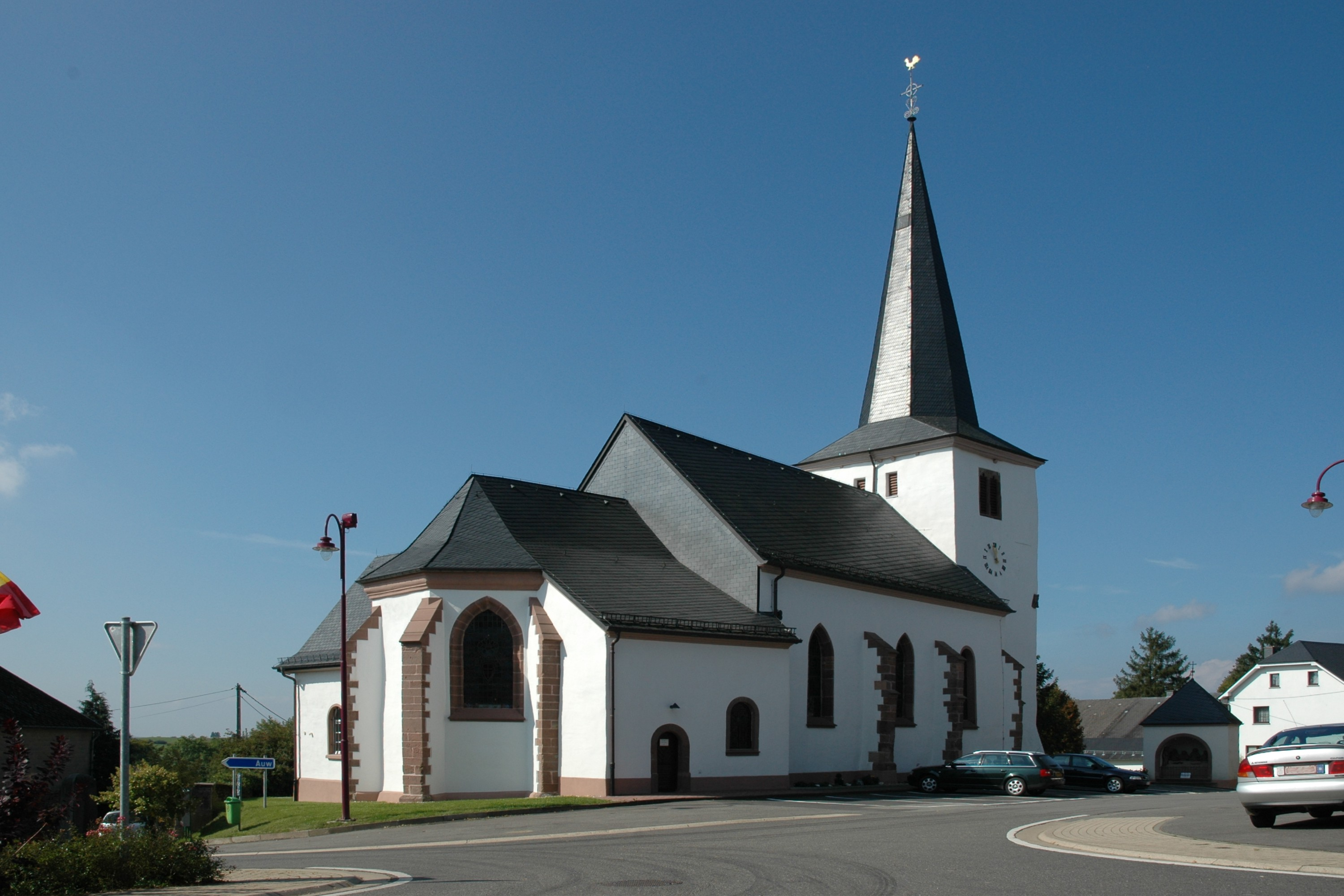 Church in Manderfeld, Belgium